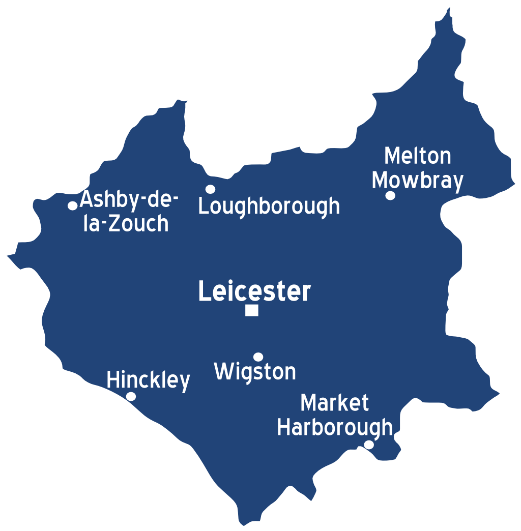 Map of Leicestershire Source: :Image:UK map.svg map: England Map of: England